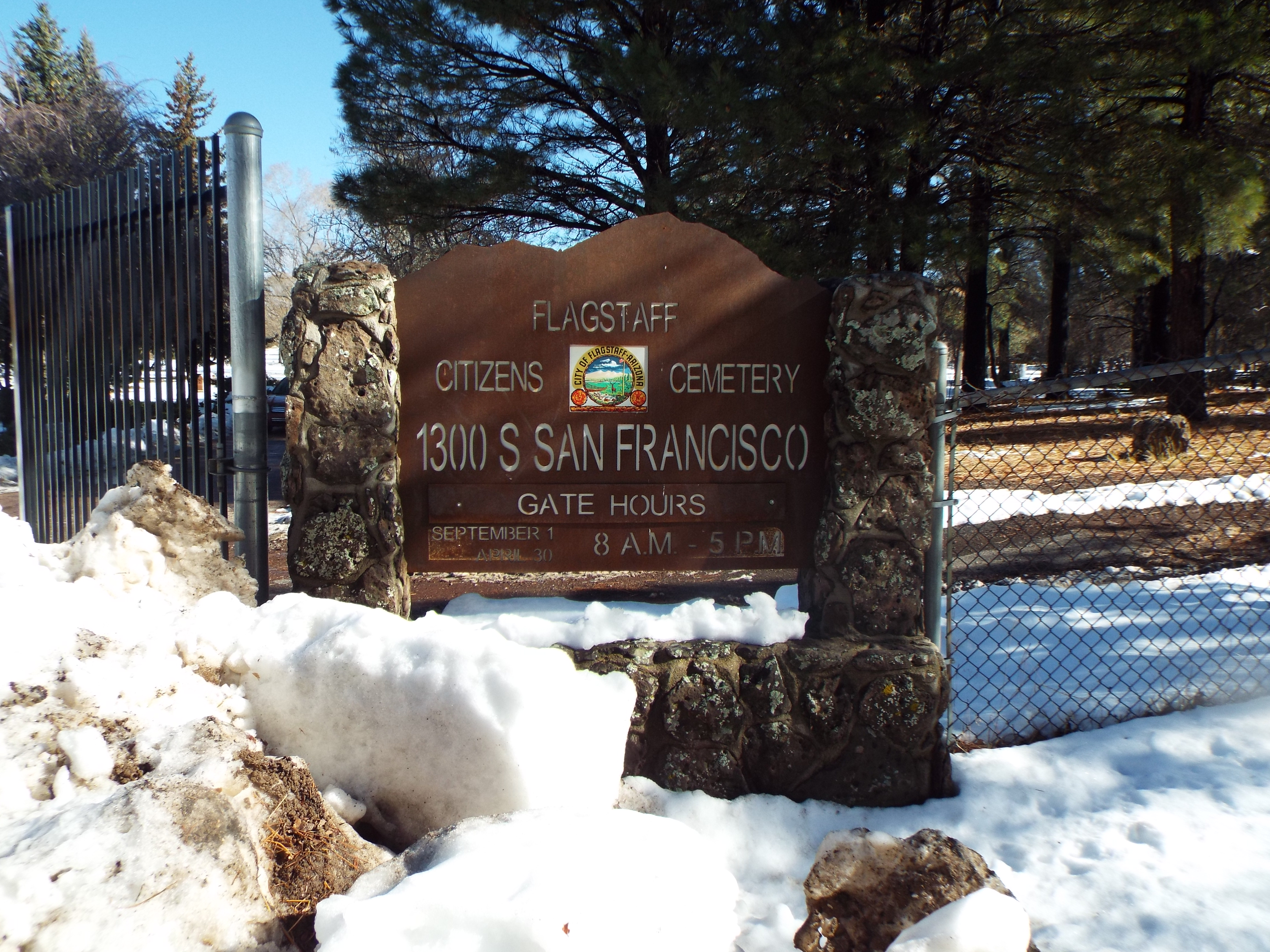 Citizens Cemetery in Flagstaff, Arizona